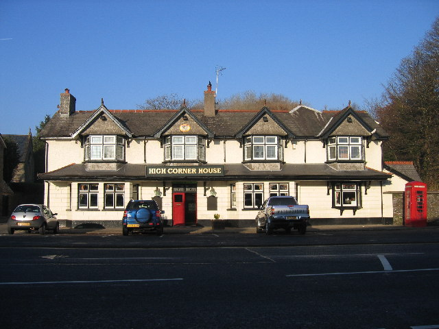 High Corner House, Llanharan, Wales.